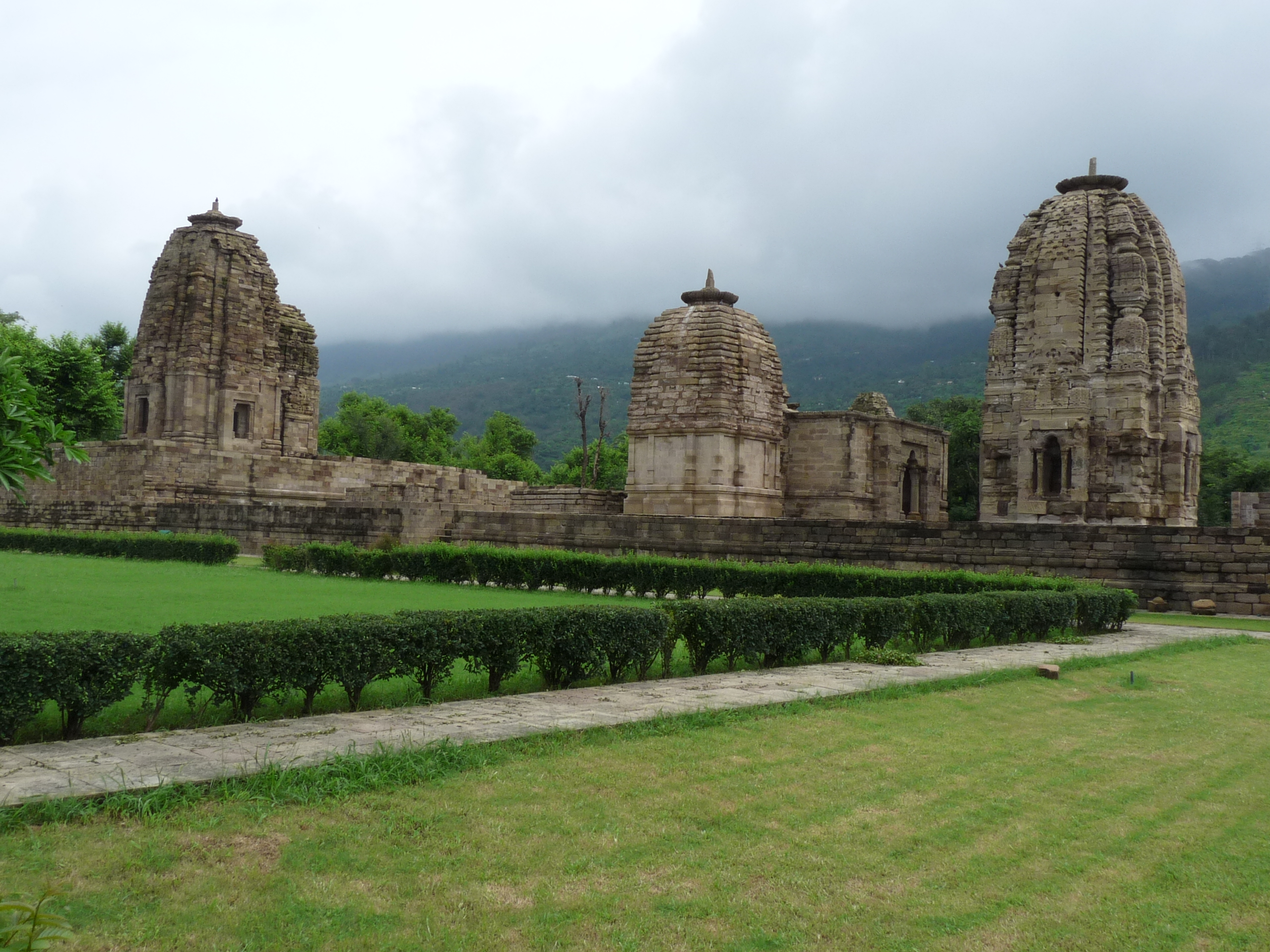 Kiramchi Kirmichi, Kirmachi - the place goes by various different spellings but the millenium old temple complex is 8km off the Udhampur-Jammu road then a ten minute walk off the road around 600m after the end of Kirimchi-Mansar village to which minibuses run every 20 minutes or so from Udhampur